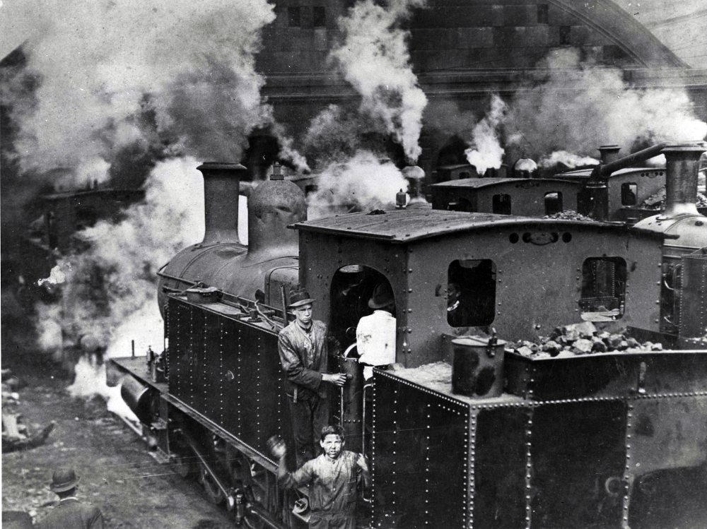 Class C3095 locomotive being cleaned by school boys at the Eveleigh Depot during the 1917 strike Dated: August 1917 Digital ID: 17420-a014-a014000570 Rights: We'd love to hear from you if you use our photos/documents. Many other photos in our collection are available to view and browse on our website using Photo Investigator.